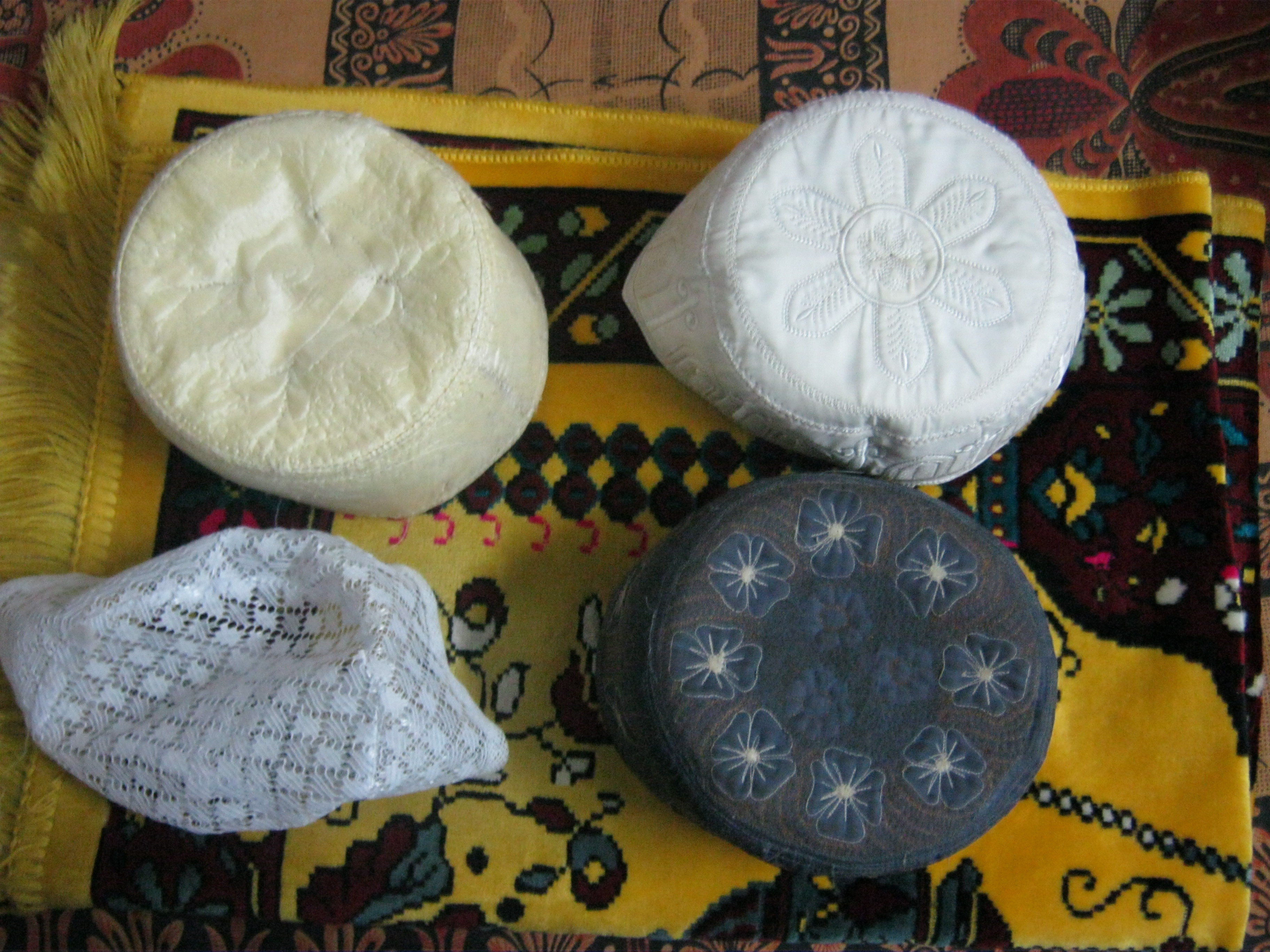 Muslim Cap